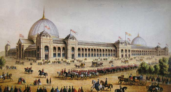 International Exhibition 1862 - Exhibition Palace, designed by Arq. Francis Fowke (1823–1865)